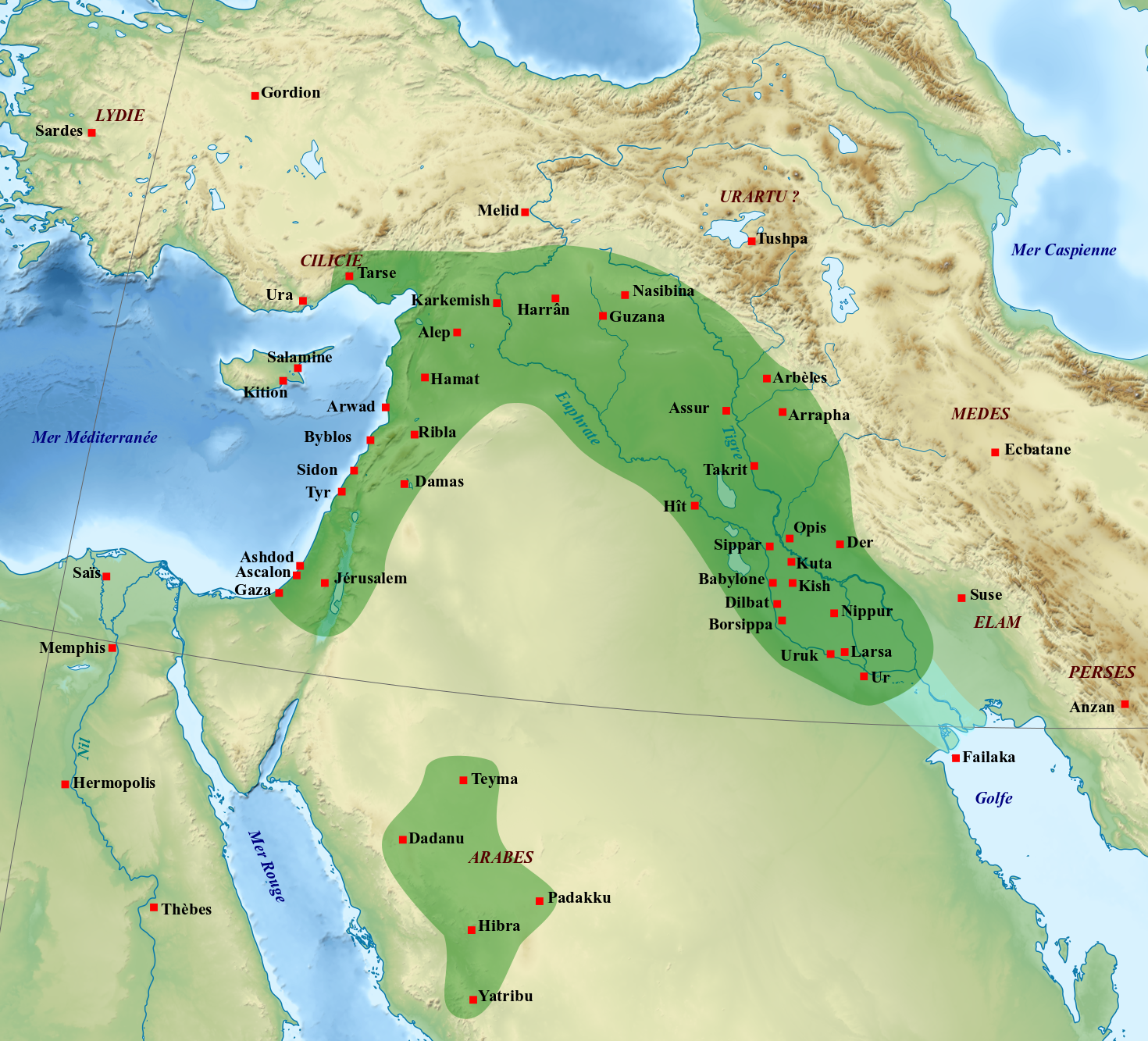 Approximate extension of the Neo-Babylonian Empire during the reign of Nabonidus (556-539 BC).